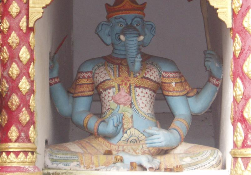 Model of Ganesh, Hindu god Category:Ganesh